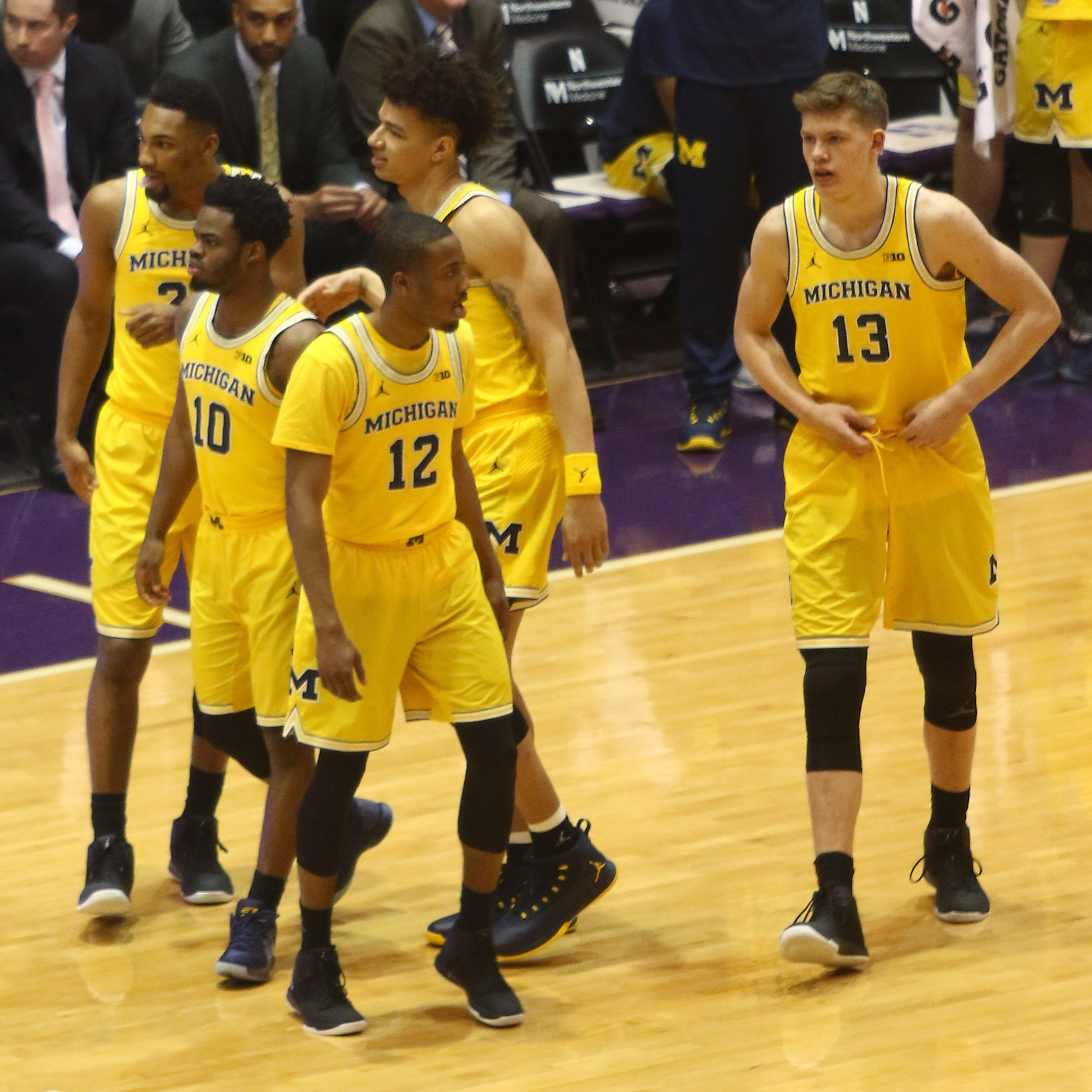 w:2016–17 Michigan Wolverines men's basketball team starting 5 (left to right) Zak Irvin, Derrick Walton, Muhammad-Ali Abdur-Rahkman (front), D. J. Wilson and Moe Wagner